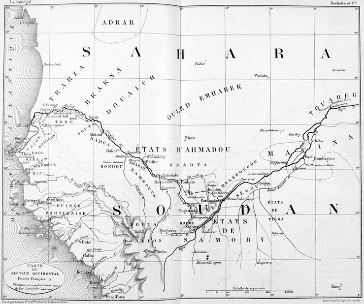 Map of Western Sudan